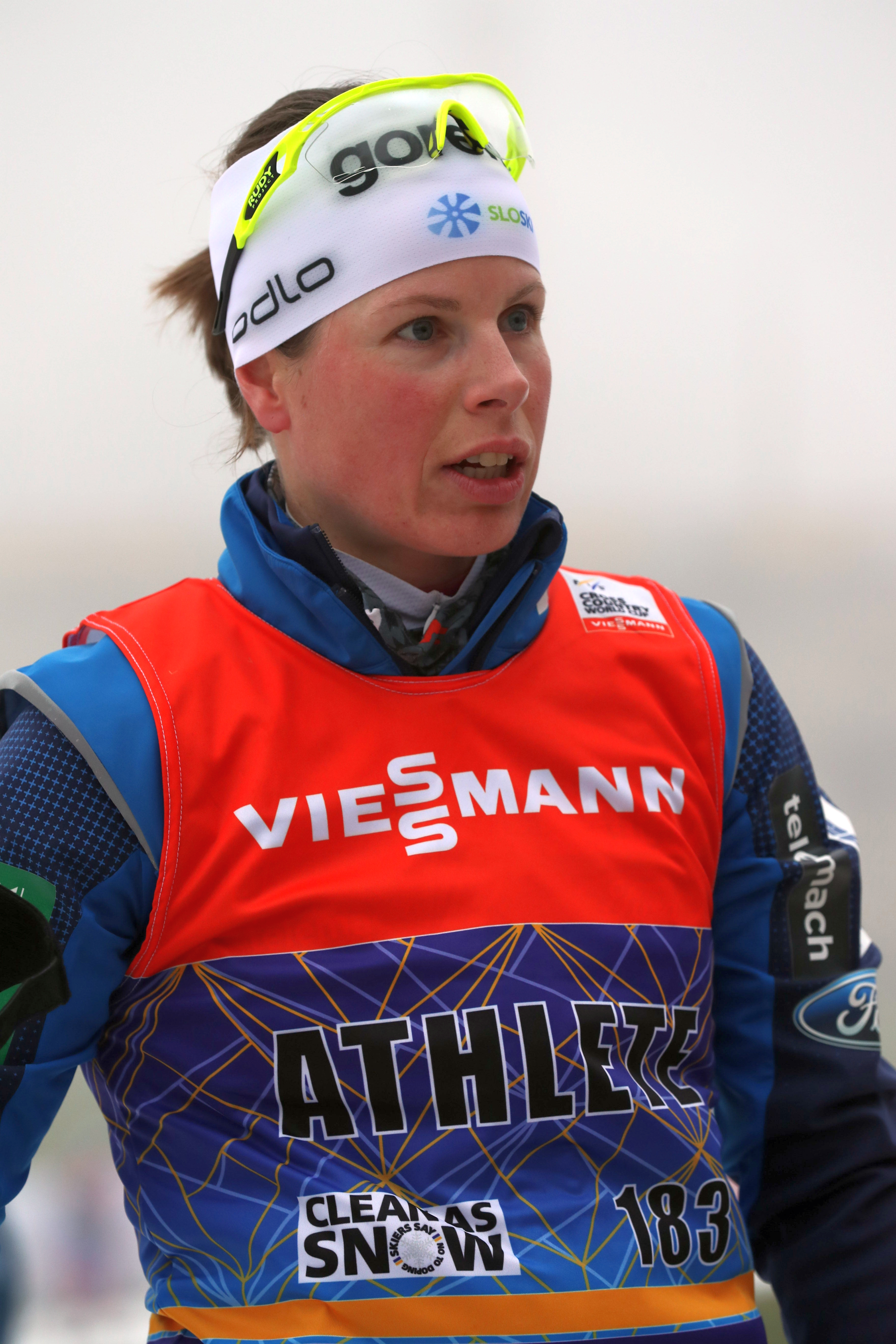 Friday training at the FIS Cross-Country World Cup Dresden 2018: 183